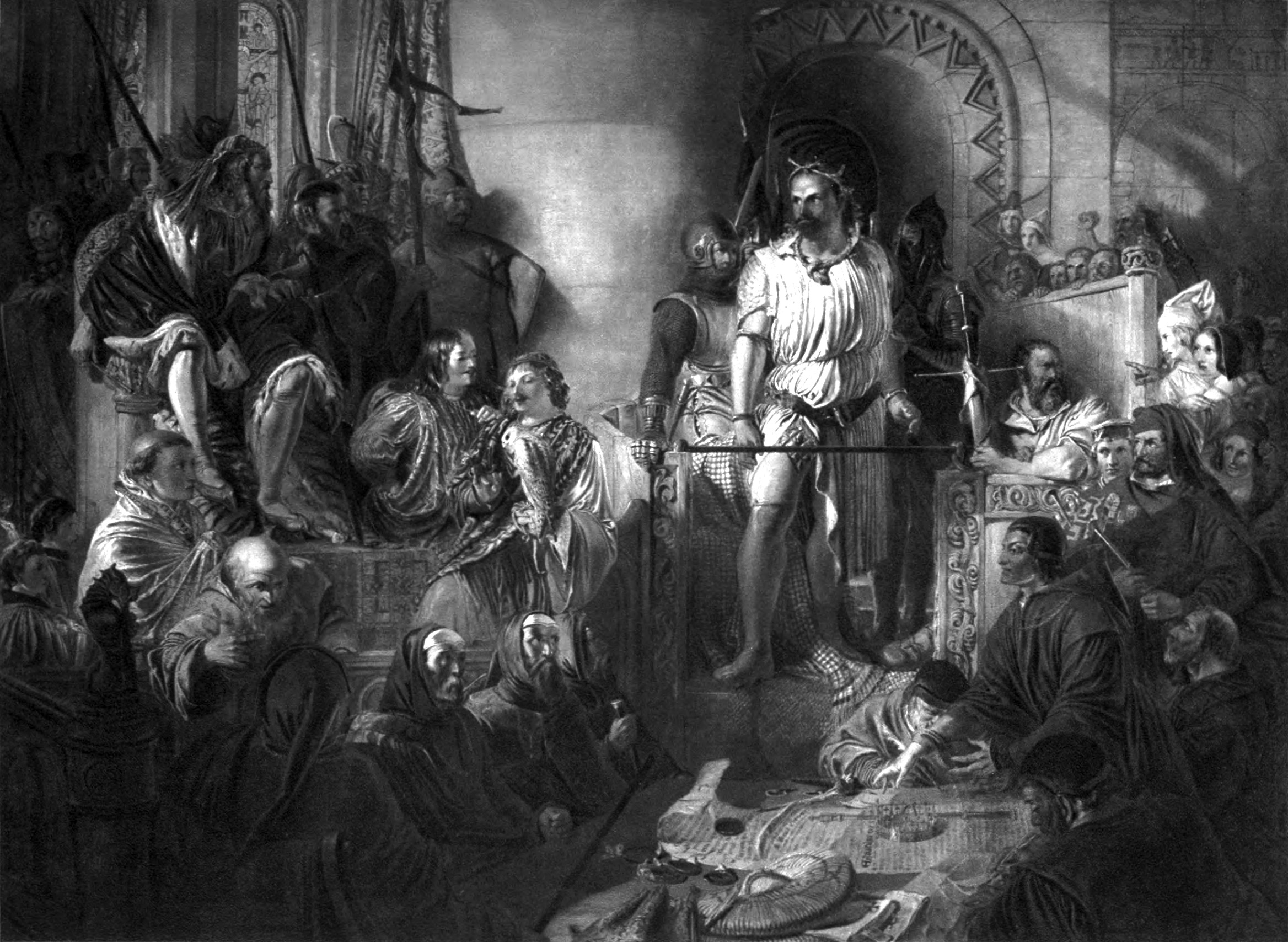 The Trial of William Wallace at Westminster